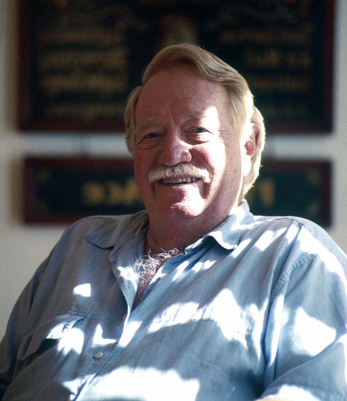 "Colonel Joe," as friends call him, continues to fly high, barnstorming across the country with his wife, Sherry, in an open-cockpit biplane. Retired US Air Force Colonel Joe Kittinger Jr.'s career was highlighted in the December 1999 issue of Airman Magazine. The story titled "Leap of Faith", describes Colonel Kittinger's historic balloon flights and his world record free fall from a balloon at an amazing 102,800 feet. He was also an "ace" pilot during the Vietnam War and four days before completing his tour he was shot down and spent 11 months as a prisoner of war. The Colonel continues to fly today and has his sights on an around-the-world balloon flight. ID: 991201-F-0308N-003